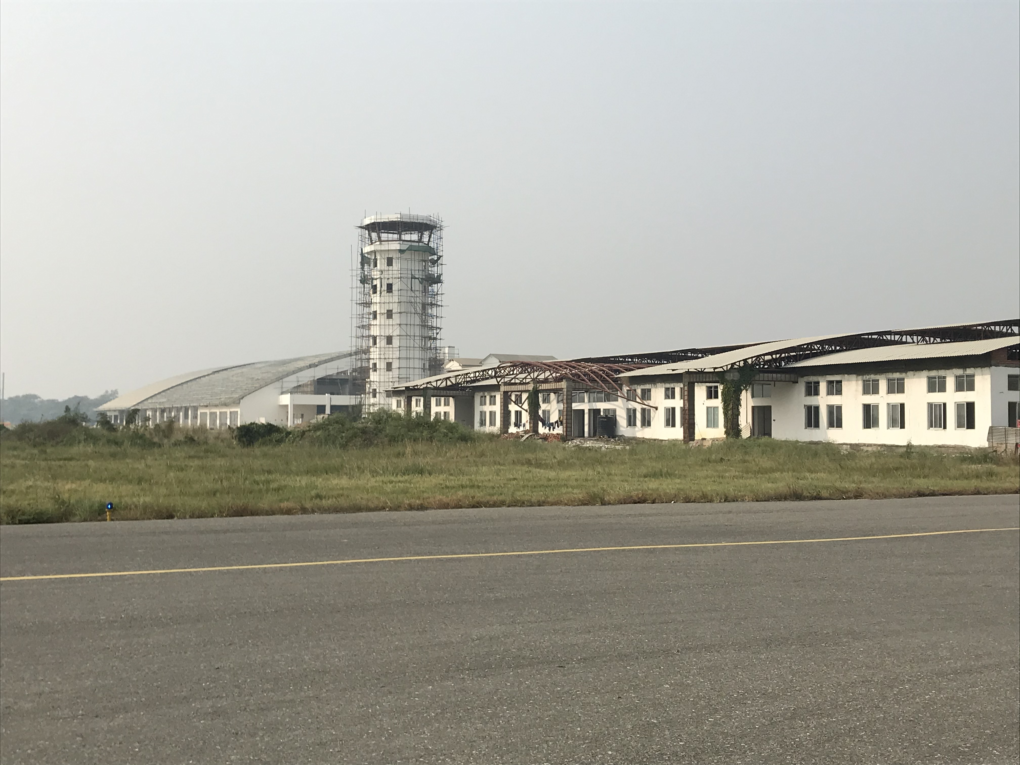 Gautam Buddha International Airport